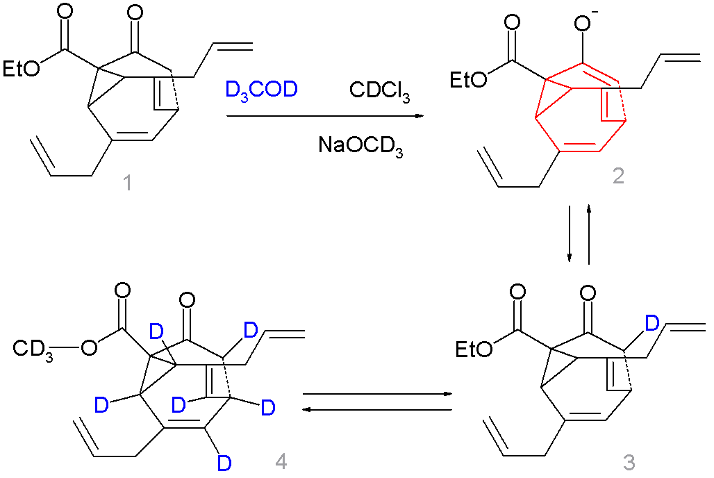 Bullvalone